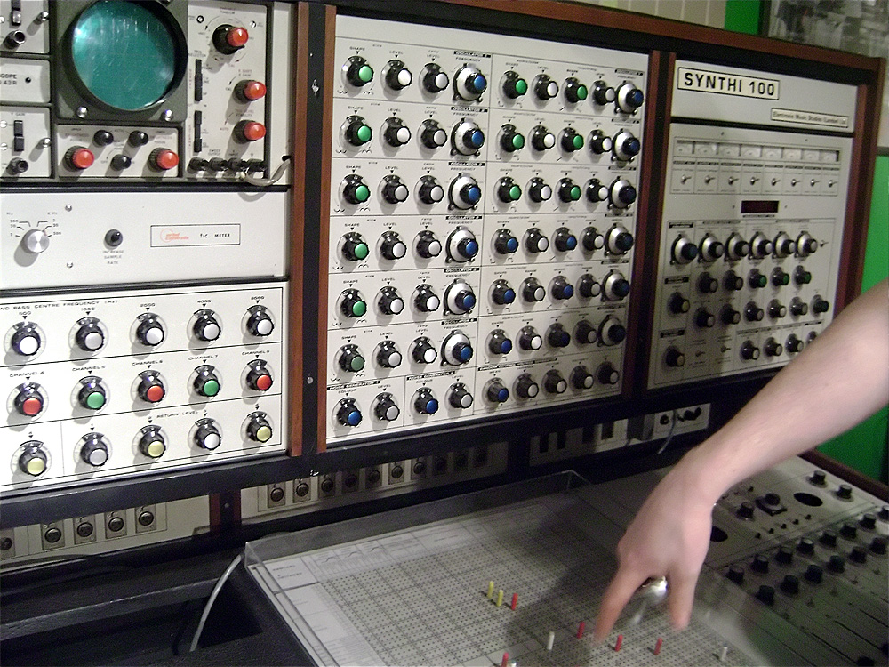 EMS Synthi 100 SYNTHI 100 utilizes a patch board instead of cables. You can see Brandon, the interpreter, pointing to it in this photo. The SYNTHI 100 had the coolest knobs, of which a crop shot of it is my current avatar. I think I failed to mention I took around a couple hundred photos during this tour, yes? Visited the Cantos foundation museum of electronic instruments and keyboards in February 2009 and got a lovely tour of the facilities. Took a lot of pictures & videos. Today is Thursday! Another tour tonight (I'll be armed with tripod and a clear empty memory card).